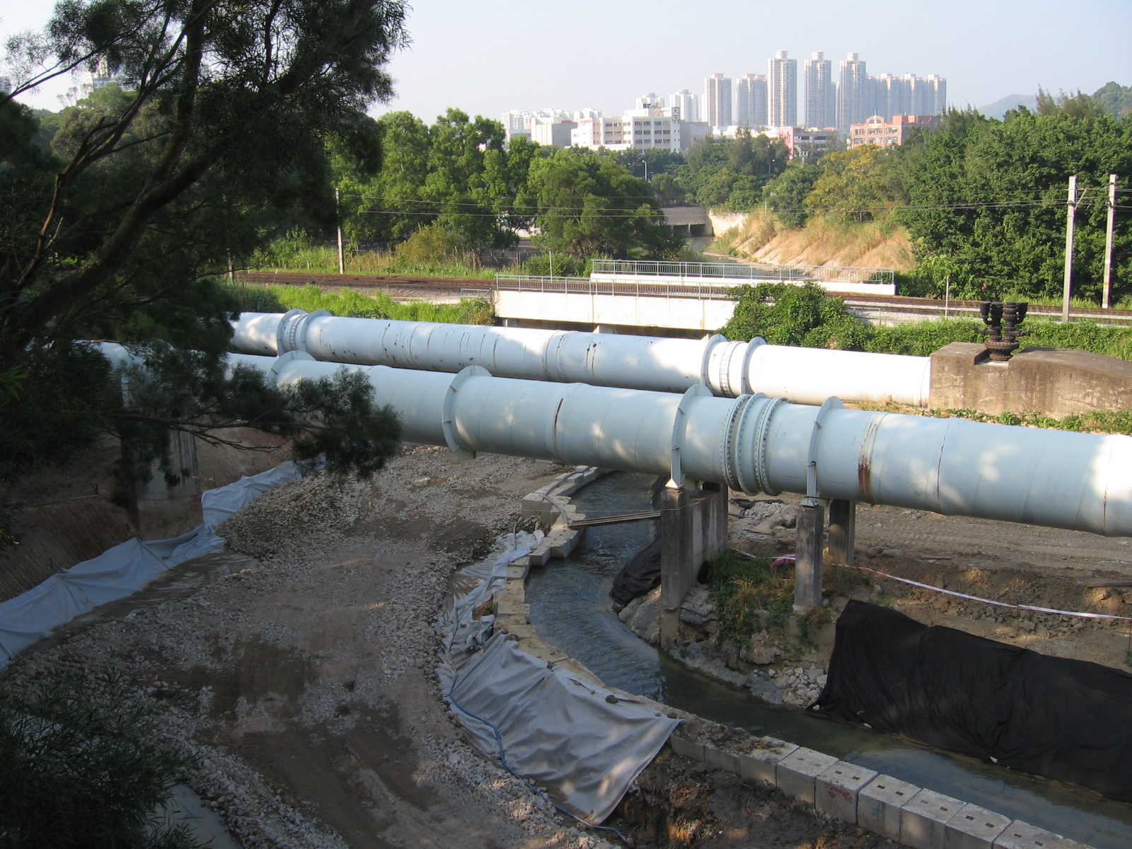 Ma Wat River under water pipe under construction, 2005